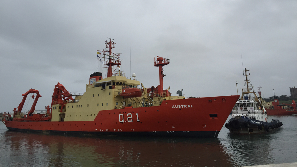 Research ship ARA Austral, ex Sonne